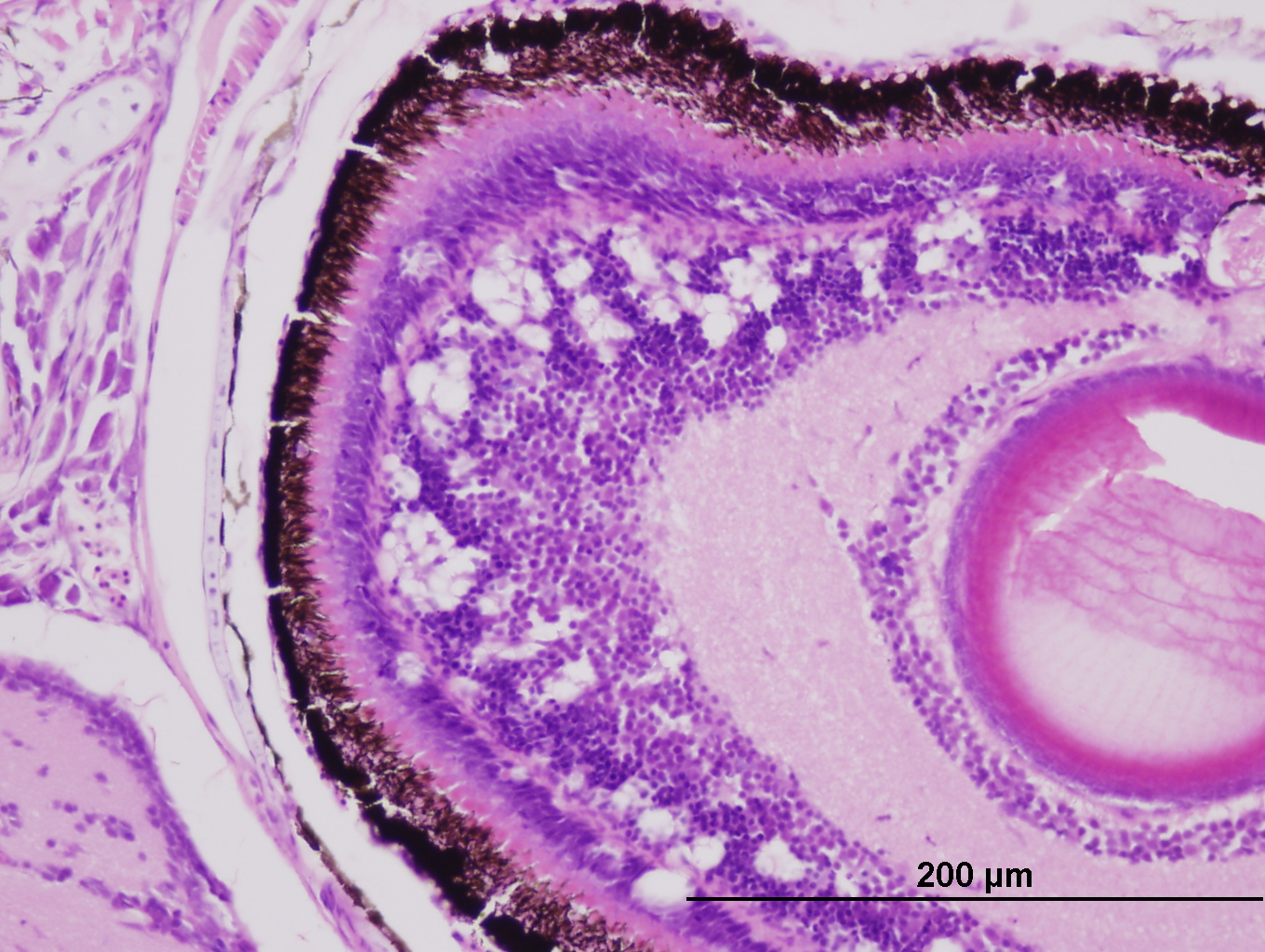 microphotography of histological section of retina stained with HE of Australian bass larvae experimentally infected with NNV